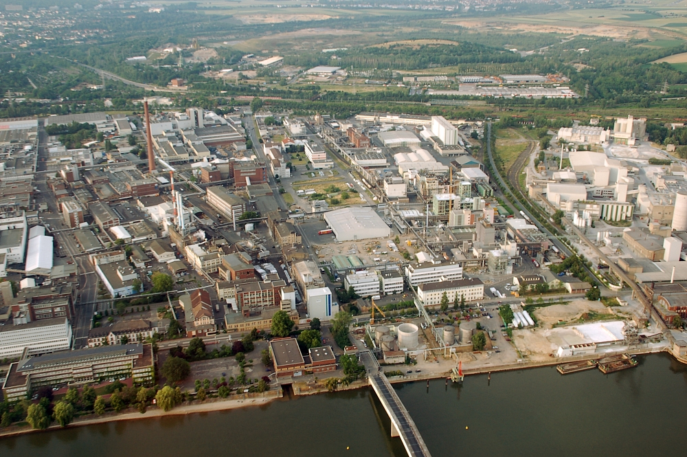 Chemische Fabrik Kalle, Wiesbaden, Germany